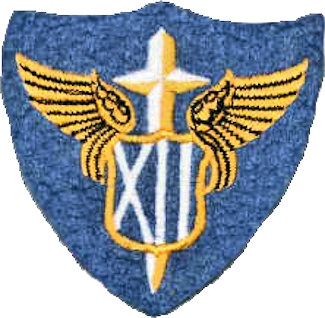 Emblem of the USAAF XII Tactical Air Command